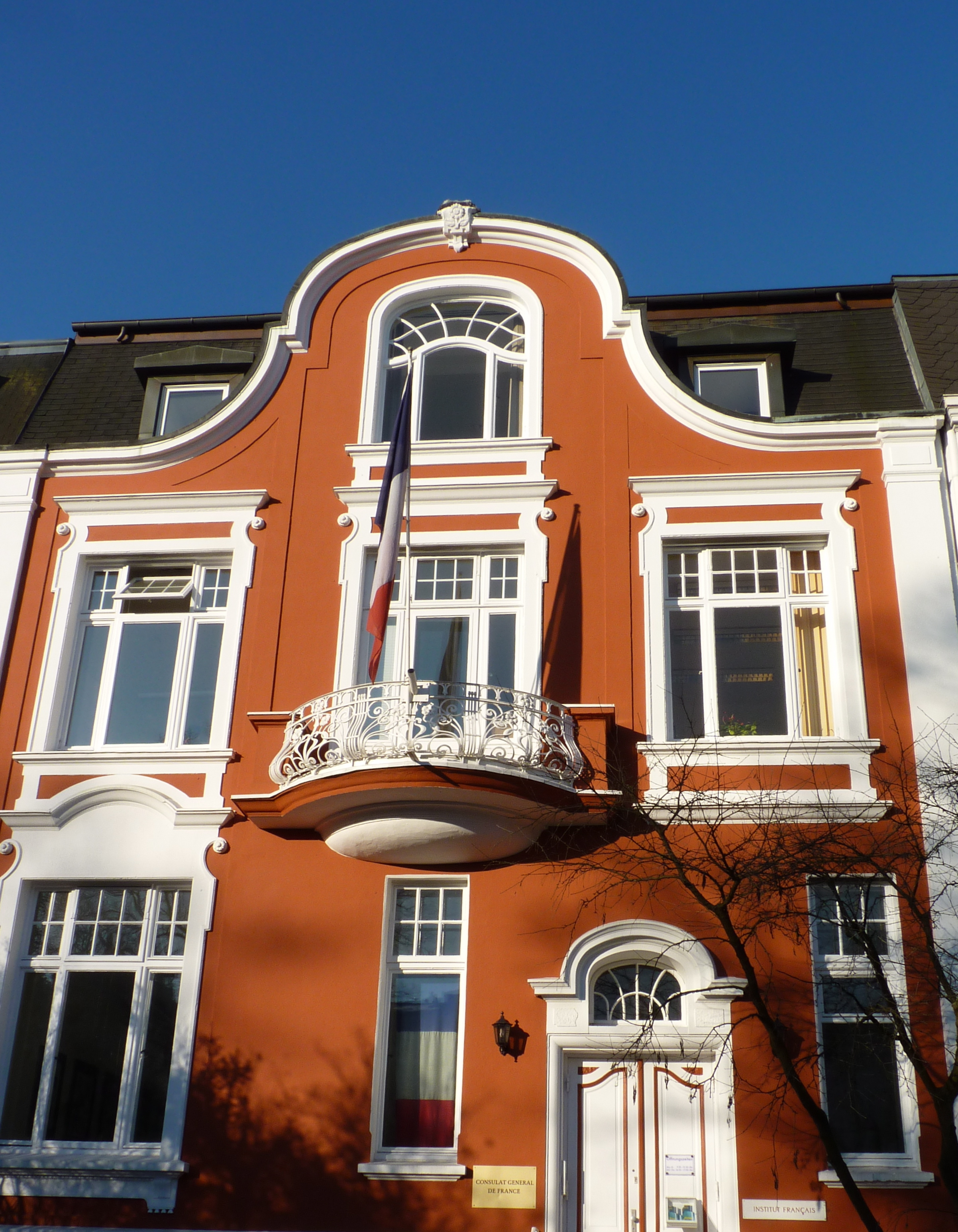 Institut francais Hamburg